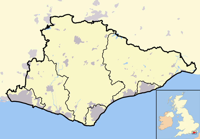 Map of the county of East Sussex, England, United Kingdom. In the bottom-left hand corner of the image is a mini-map of the British Isles showing the location and relative size of East Sussex in red. On the main map, urban areas are in grey while rural areas are in yellow; the blue lines are rivers.